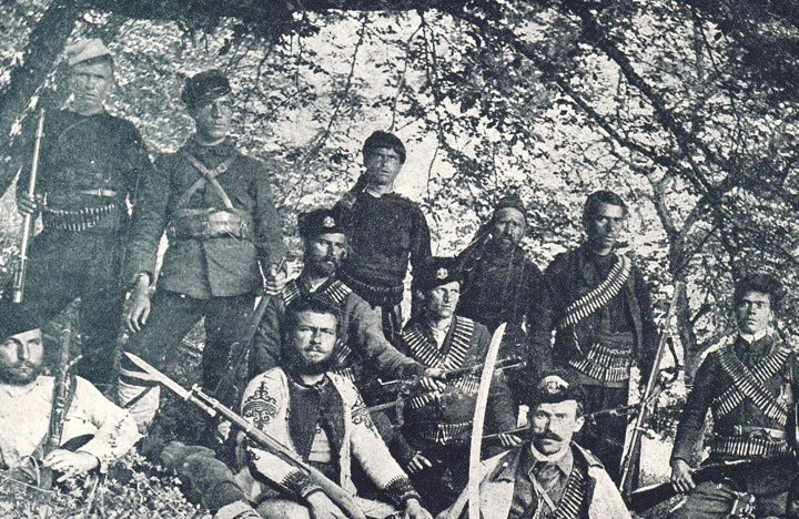 Cheta of SMAC member Atse Ivanov, 1904